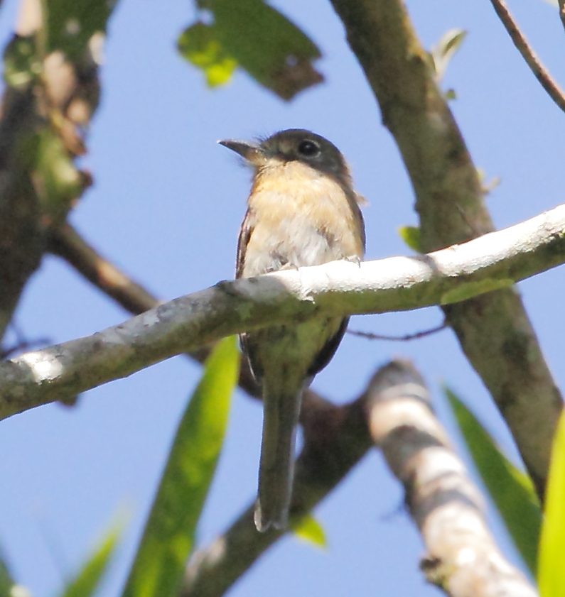 Rusty-breasted nunlet at Intervales State Park, SP, Brazil